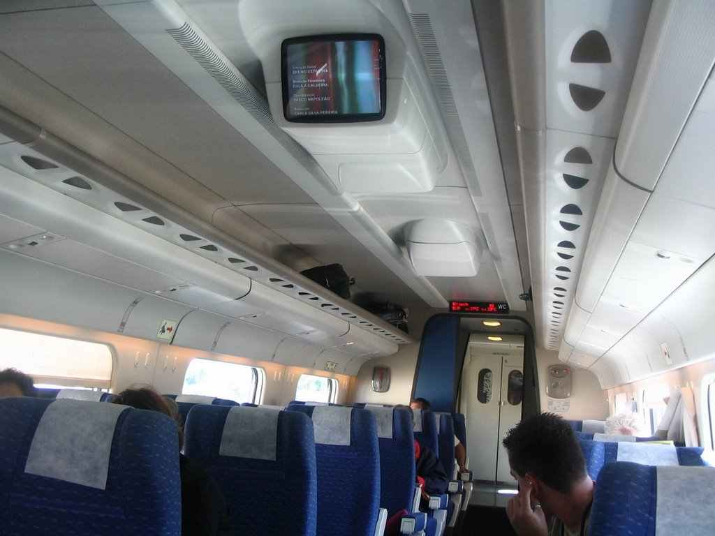 Alfa Pendular is the tilting train service along the Portuguese coastline. Bad news: 2nd class tickets are sold out. Good news: breakfast, comfy seats and TV program with headphones on the 1st class. Besides showing the next station, train speed is also displayed, topping at 200 kph.